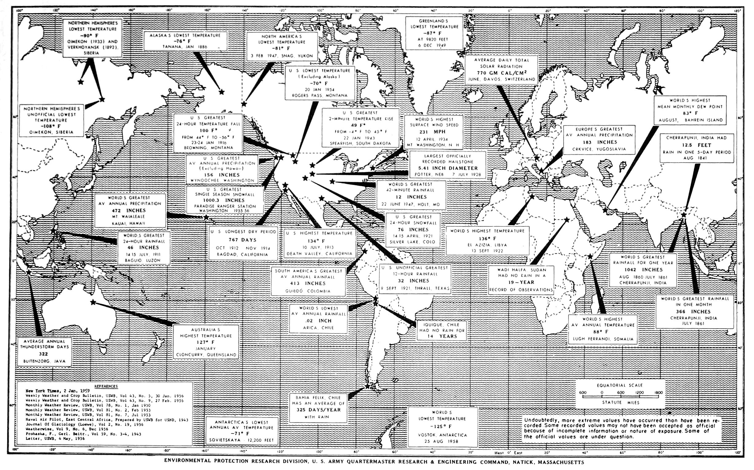 Weather extremes around the world